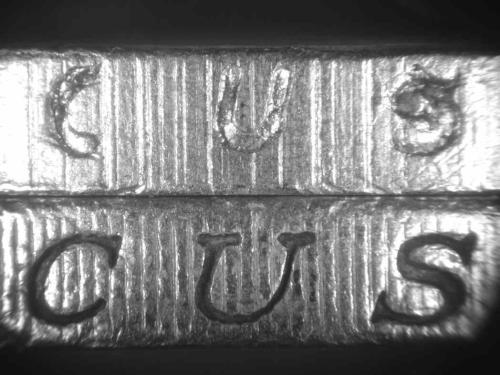 own image taken 2000